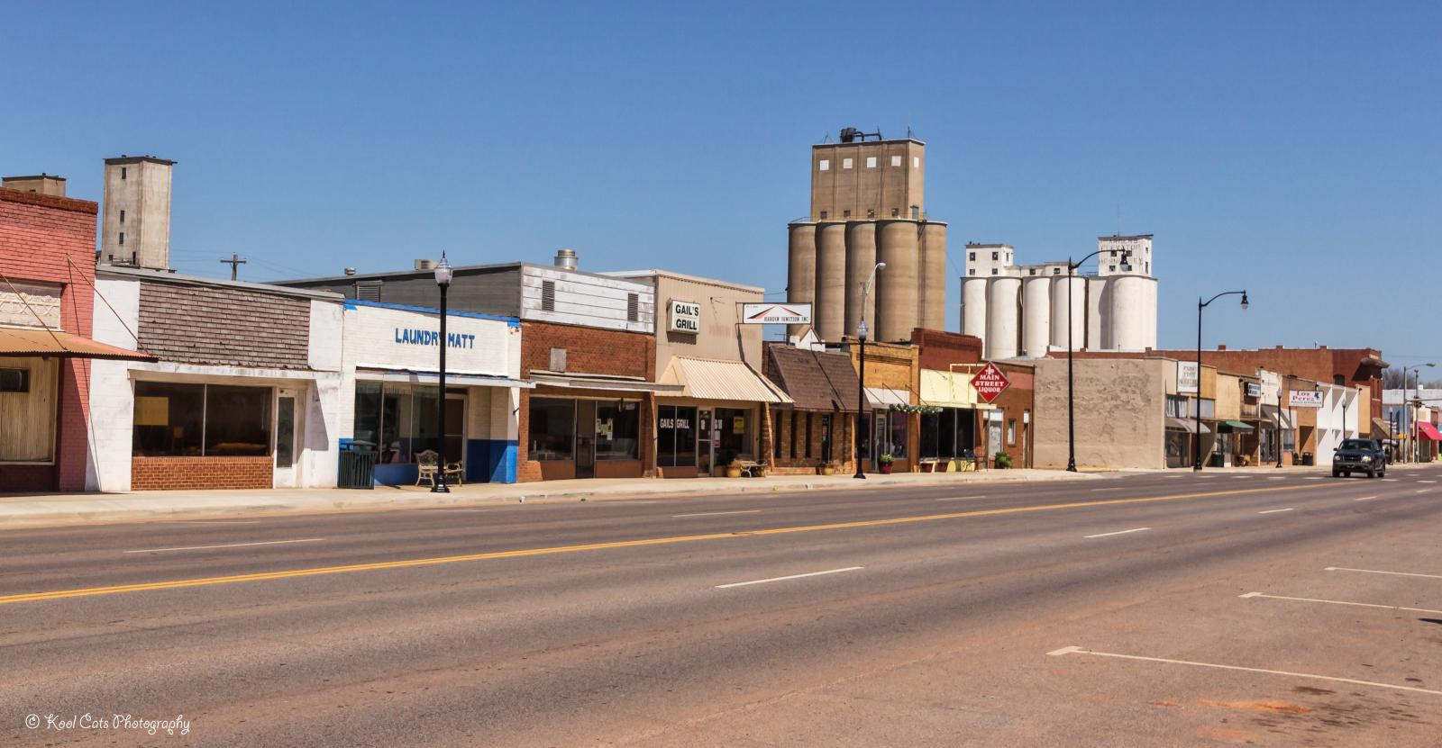 Kingfisher, Oklahoma, HWY 81.